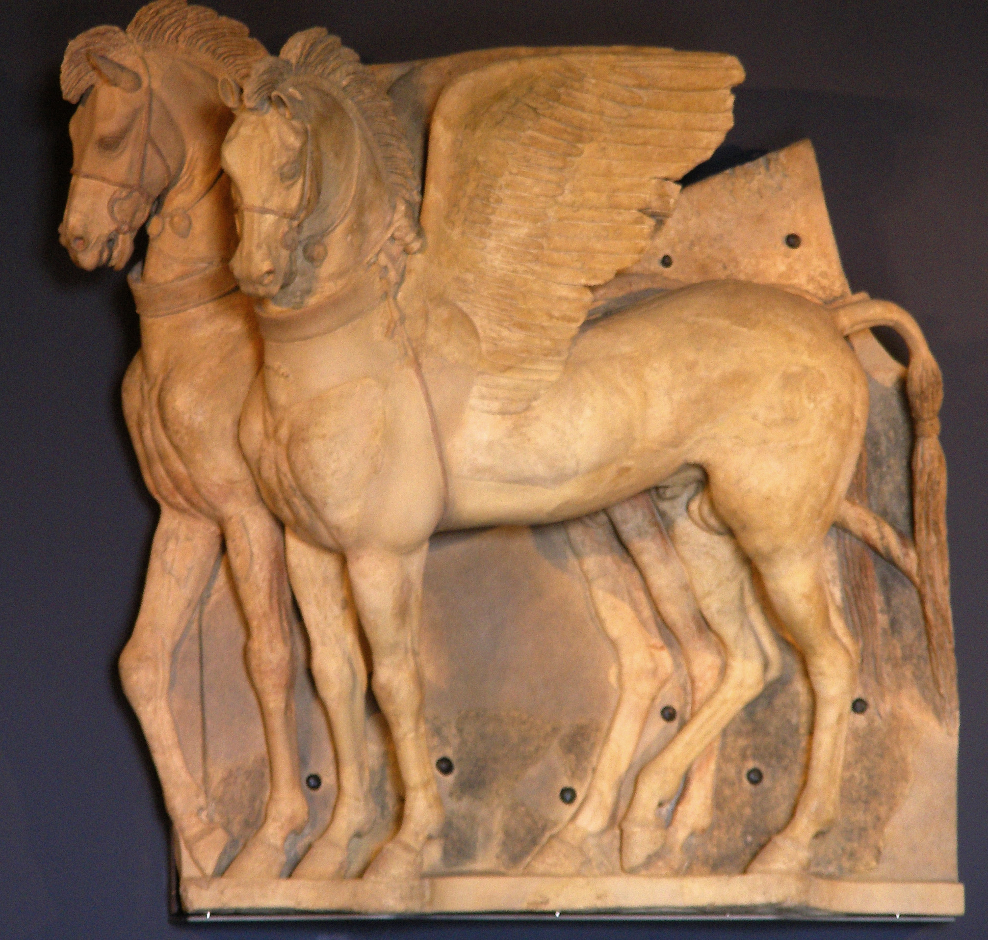 Decoration from the pedimental area of the temple of the Ara della Regina.